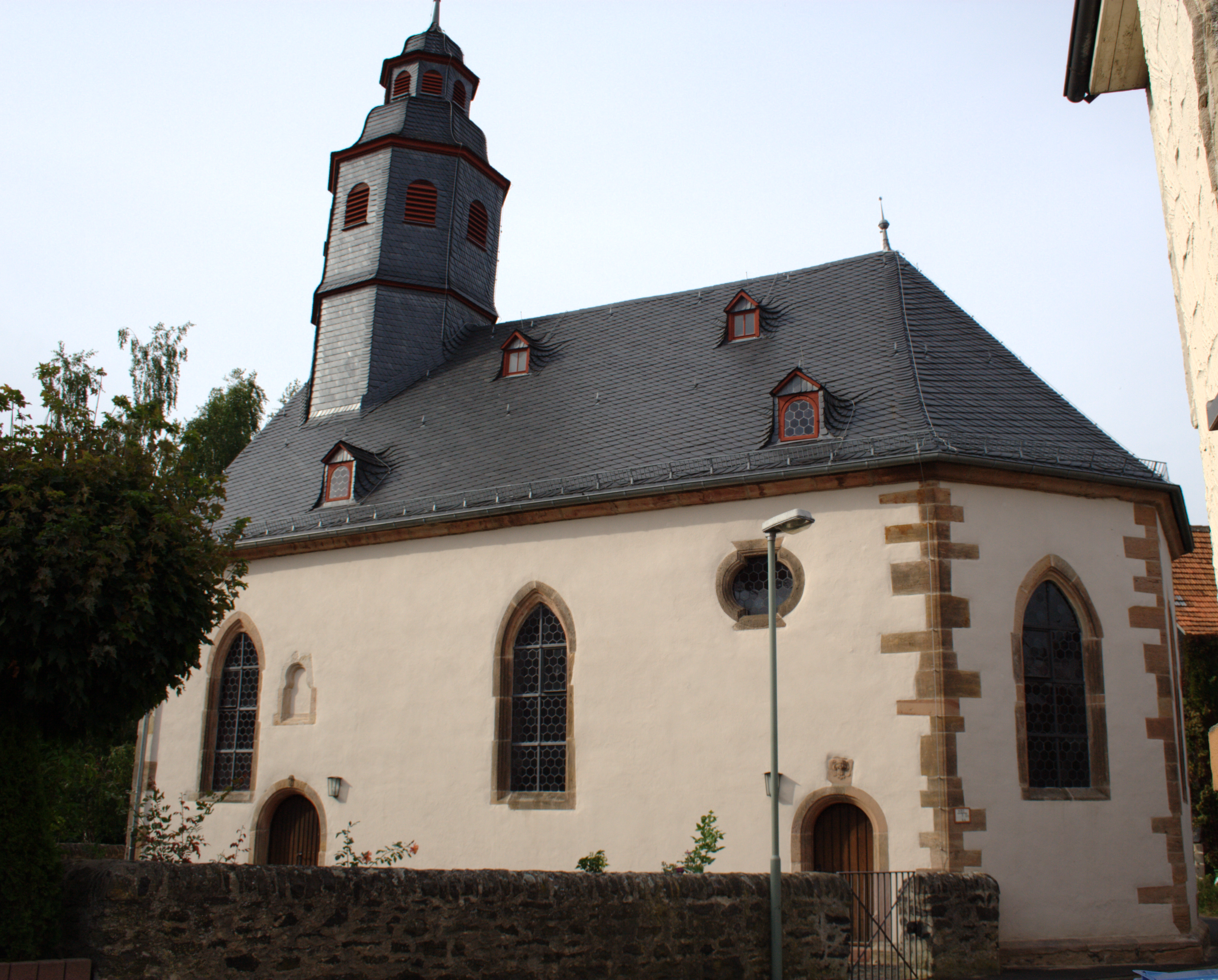 Church in Alsfeld Leusel Kirchstraße 6 / Hesse / Germany